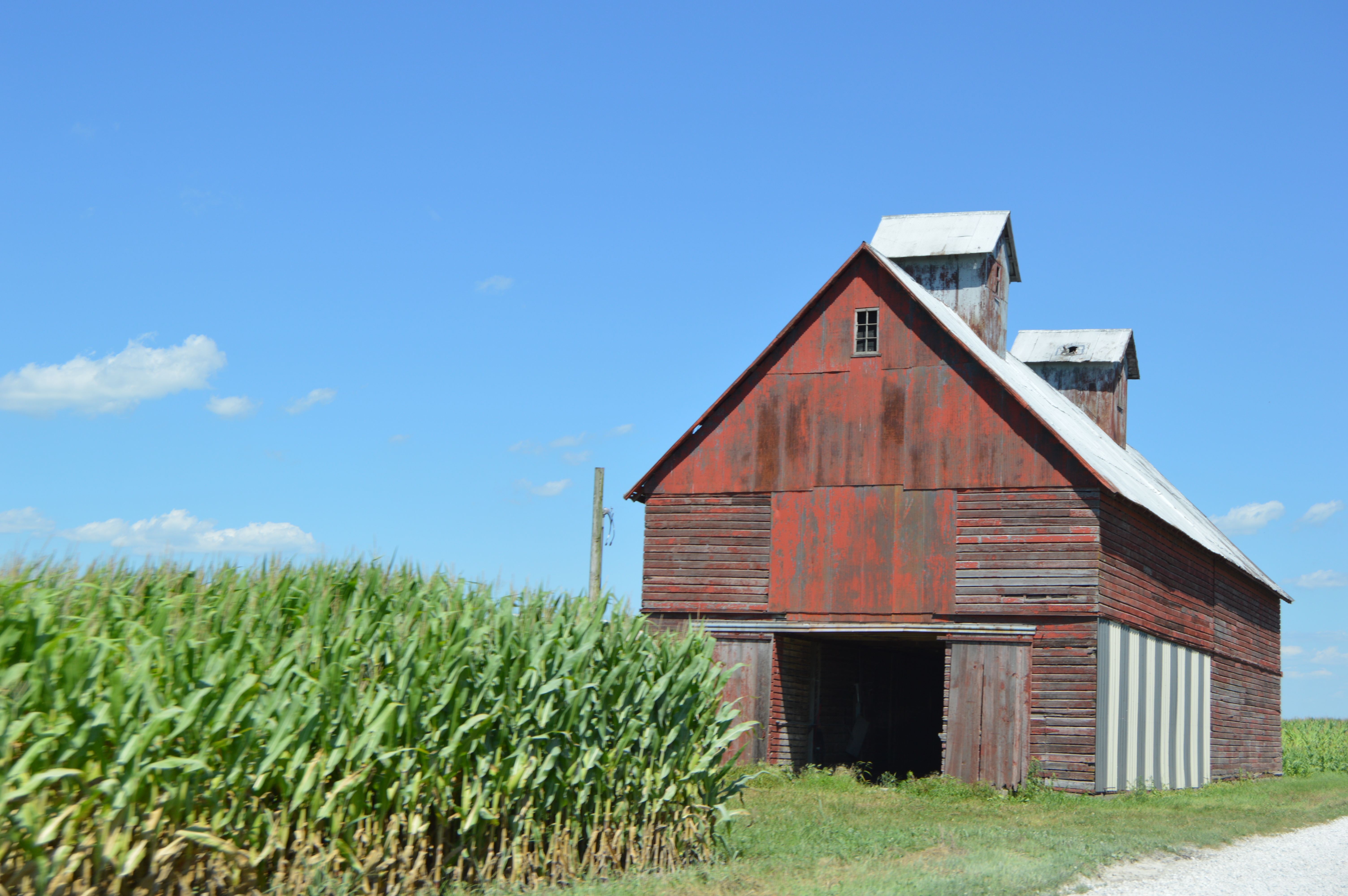 A barn and cornfield on E100N west of N1075E and east of Fowler in Pine Township, Benton County, Indiana, United States.